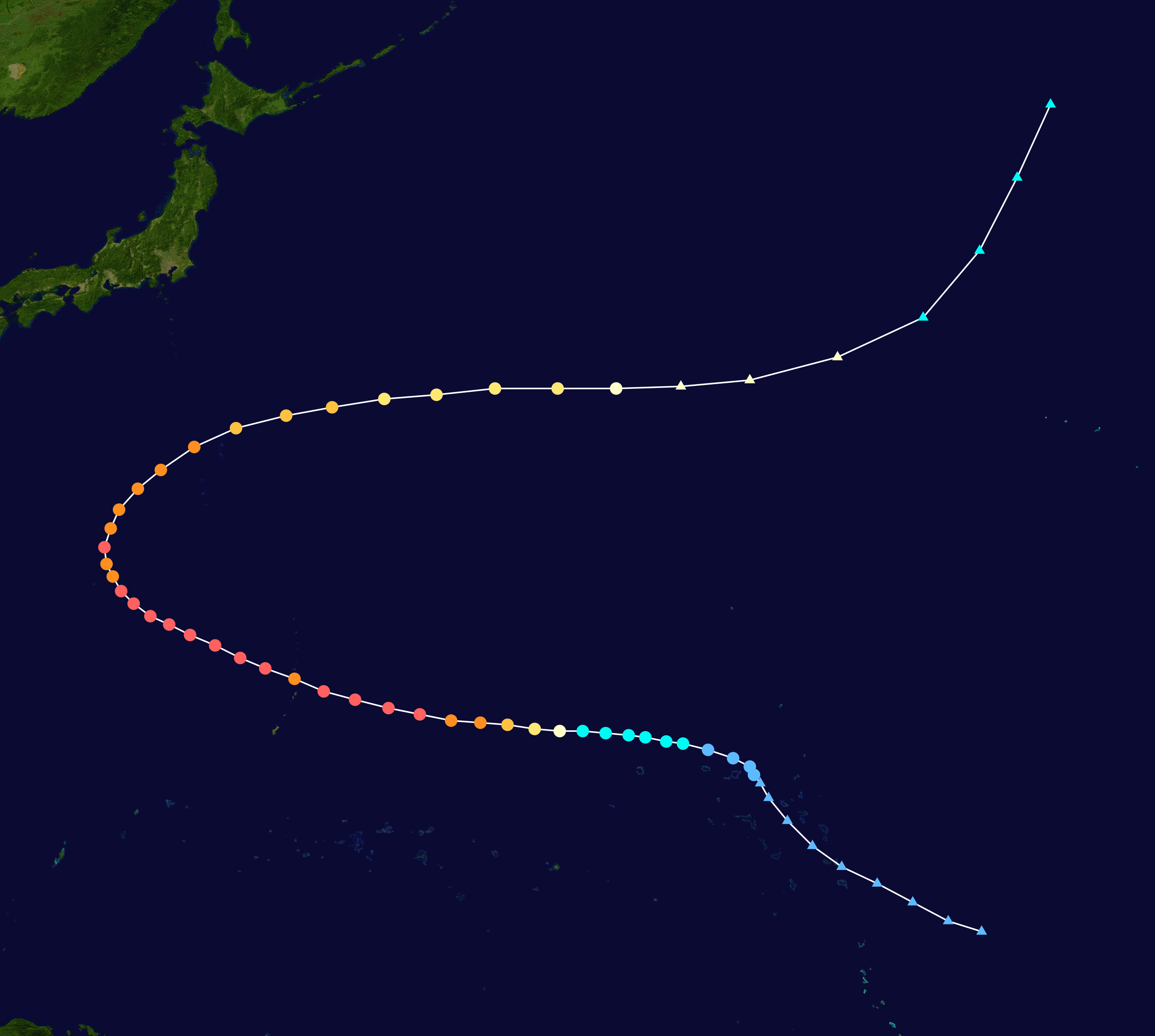 Typhoon Joan 1997 track. Uses the color scheme from the Saffir-Simpson Hurricane Scale.